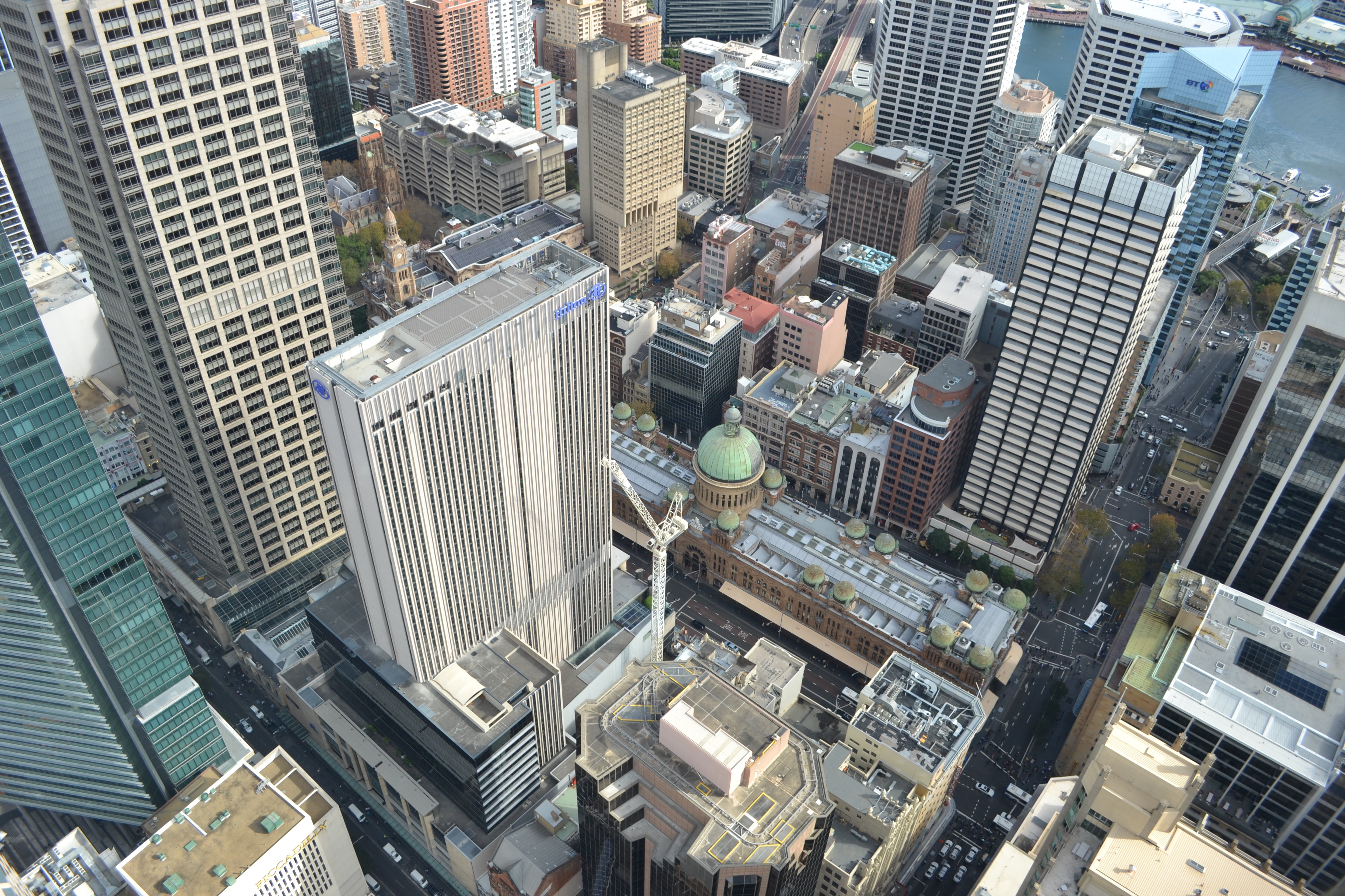 Ritratto di città, 2012, Sydney